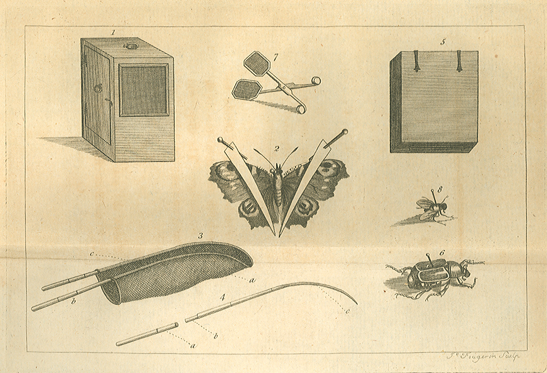 Page of Instructions for collecting and preserving insects; ... (1771) that gives the "Materials needed for collecting and preserving insects." London: Printed by the author, and Sold by George Pearch, Cheapside 1771